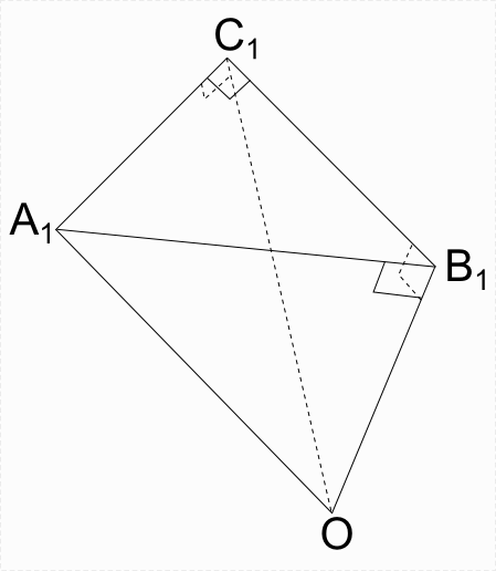 A tetrahedron for proofs of some statements of the spherical trigonometry.